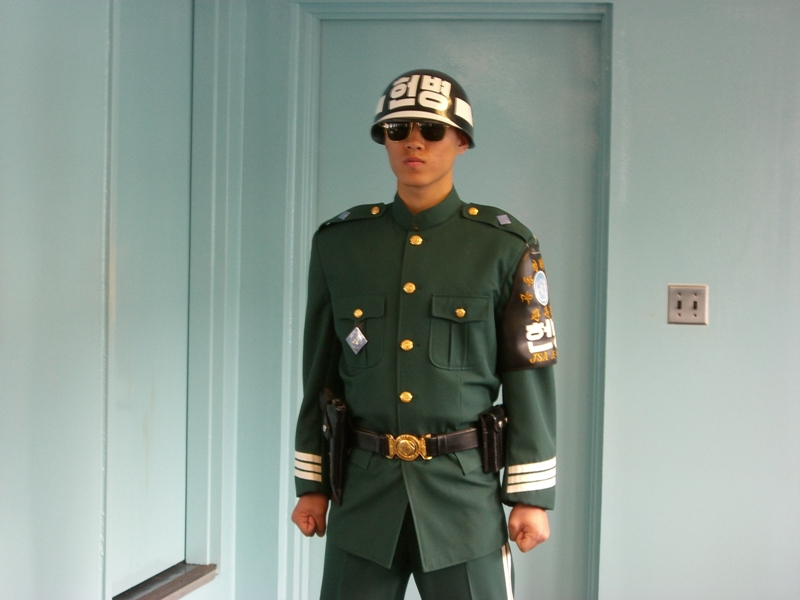 This is a South Korean guard protecting the door to North Korea in Panmunjeom.